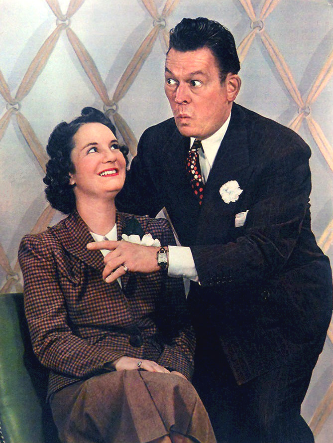 Photo of Fred Allen and his wife, Portland Hoffa, published by the New York Sunday News in 1941. The date of publication can be seen at the upper left of the uncropped page.